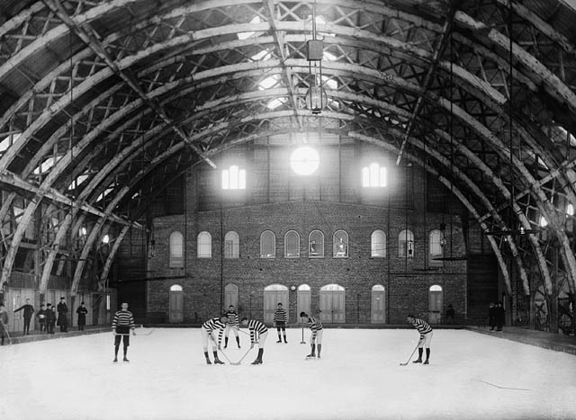 Hockey team on an indoor rink, Quebec City, Quebec, Canada, date unknown, circa 1900s. The Quebec Skating Rink, home of the Quebec Bulldogs. Destroyed by fire in 1918. Located in the Plains of Abraham.